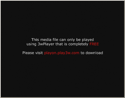 This is what you get lately when you download movies, mostly via BitTorrent. From wikipedia: 3wPlayer is a rogue media player software application bundled with trojans that can infect computers running Microsoft Windows. It is designed to exploit users who download video files, instructing them to download and install the program in order to view the video. The 3wPlayer is infected with Trojan.Win32.Obfuscated.en according to Kaspersky Anti-virus. The 3wPlayer employs a form of social engineering to infect computers. Seemingly desirable video files, such as recent movies, are released via BitTorrent or other distribution channels. These files resemble conventional AVI files, but are engineered to display a message when played on most media player programs, instructing the user to visit the 3wPlayer website and download the software to view the video. The program is bundled with malware that has various undesirable effects, including attempting to disable the user's anti-virus software. There are several tools on the internet that claim to be able to decode these media files, but are generally second-chance attempts at infecting your computer with malware. To date, these programs have not been proven to work, and it is believed that any downloaded file that requires the 3wPlayer will not contain any of the promised content. HOW COME NOBODY DDoSes ??